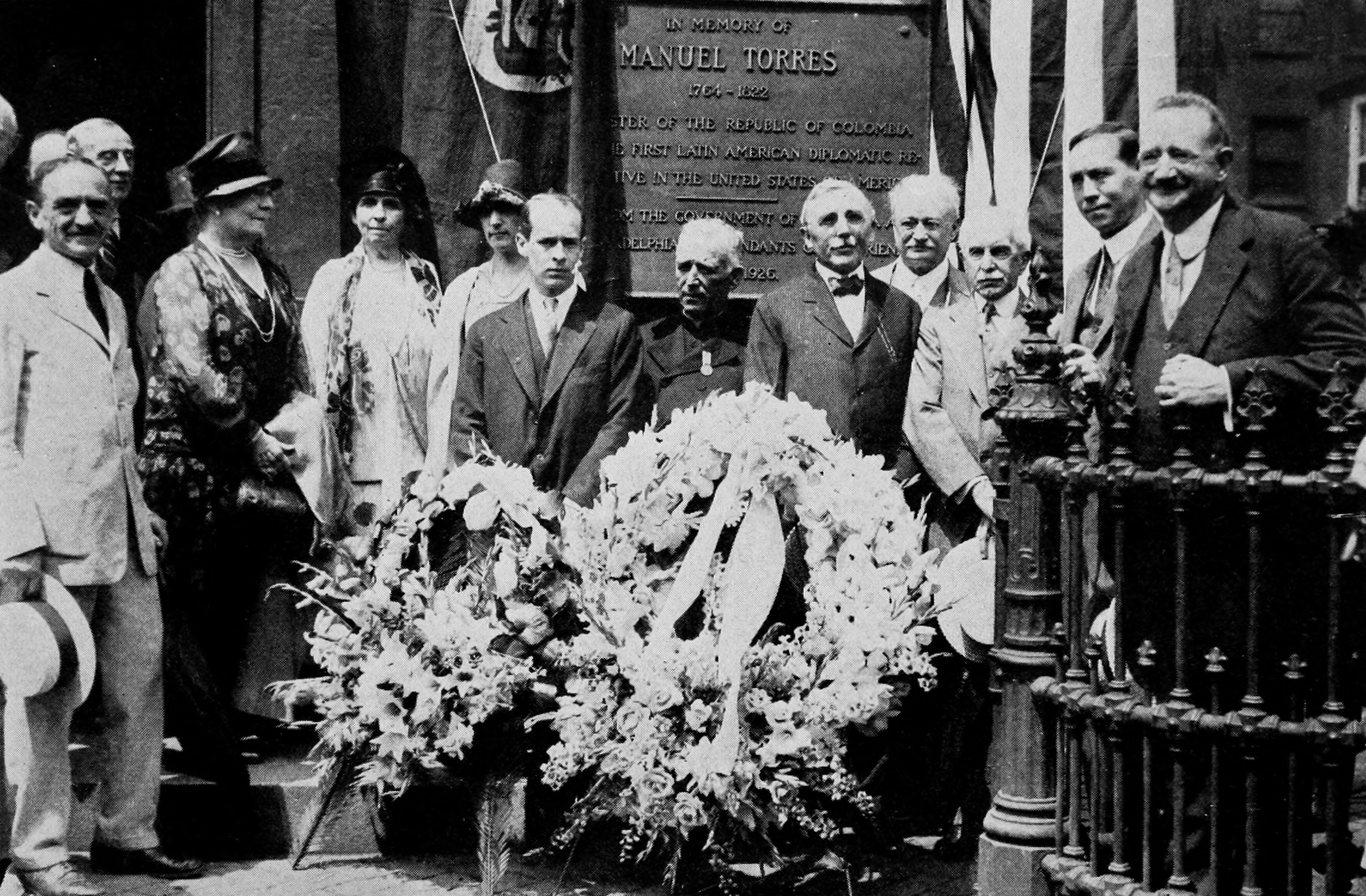 Ceremony attendants stand in front of the newly dedicated bronze plaque to Manuel Torres, a Spanish American revolutionary who lived in Philadelphia. The plaque was placed at St. Mary's Church, where Torres is buried.